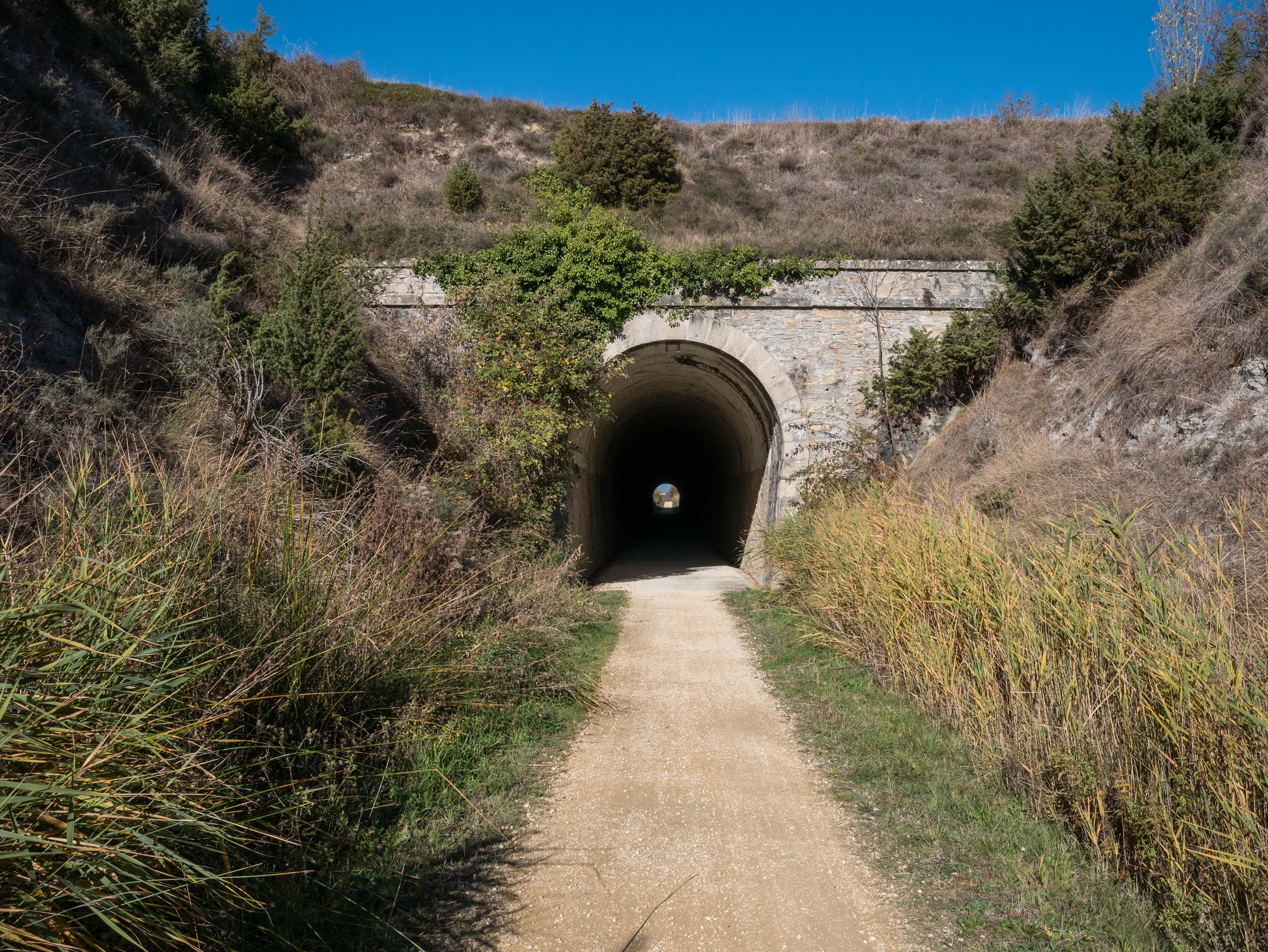 Trokoniz Tunnel on the Vasco-Navarro rail trail from Vitoria to Estella. Álava, Basque Country, Spain